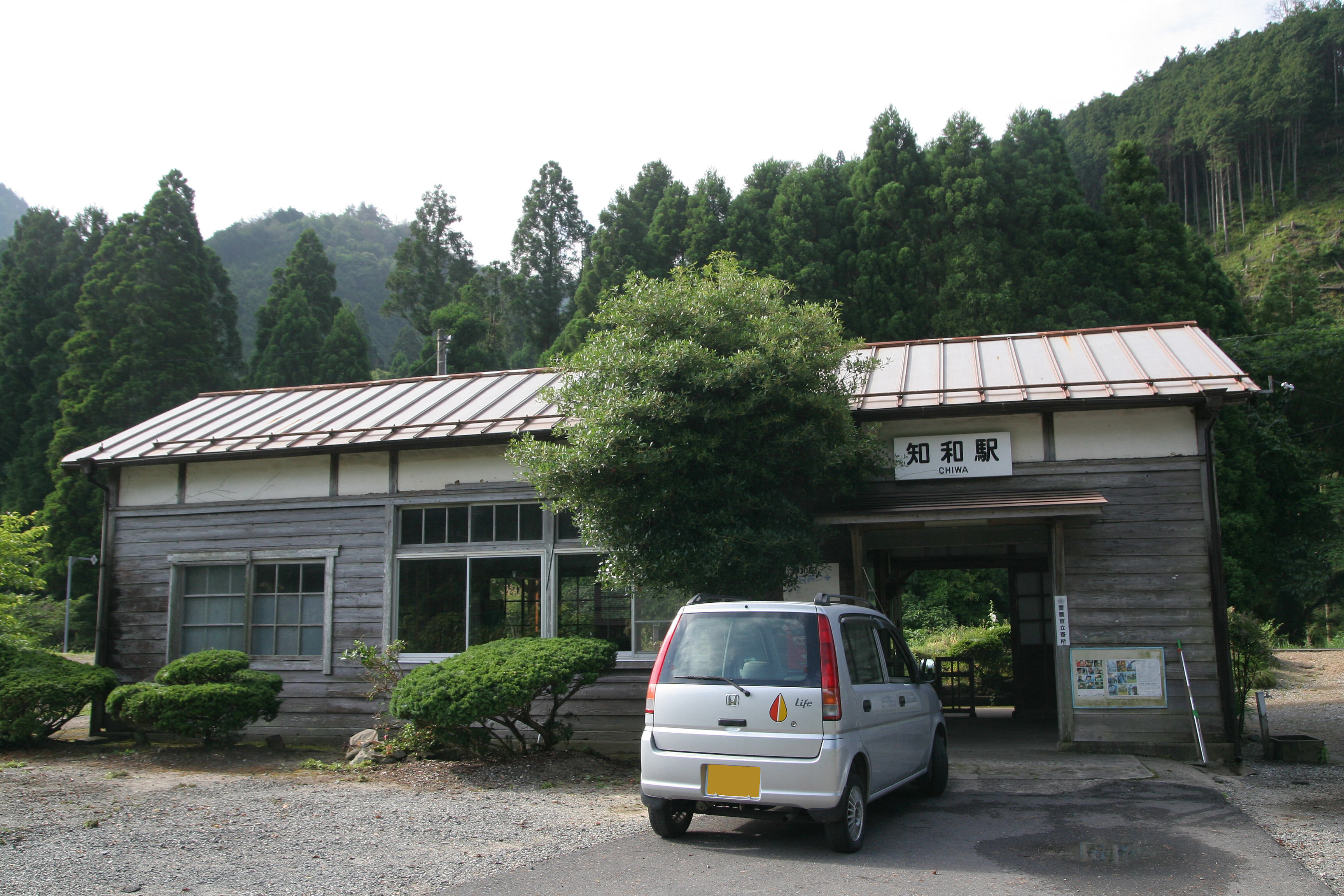 West Japan Railway Inbi Line Chiwa Station